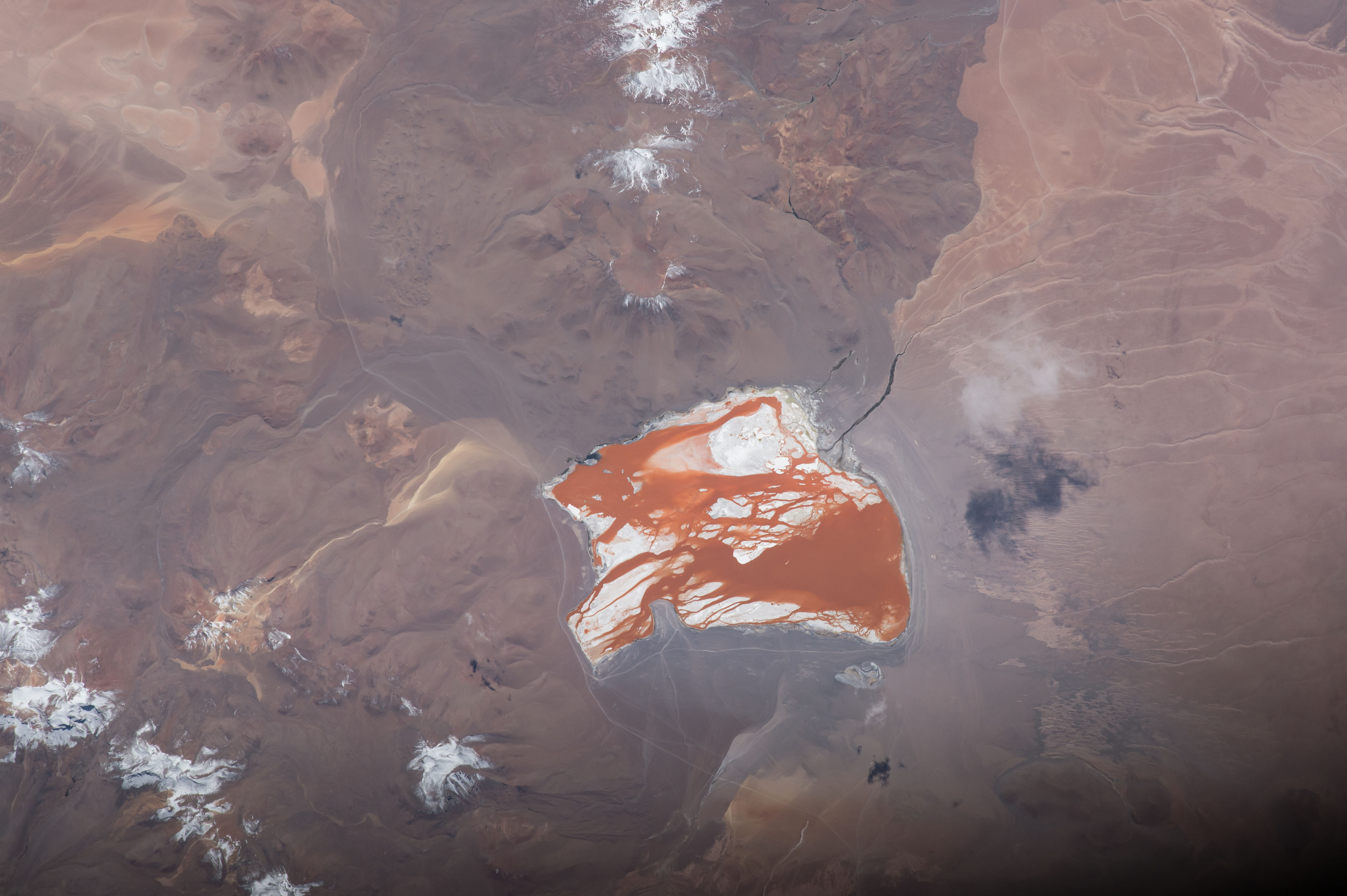 The brightly colored Laguna Colorada, unique in this part of the Bolivian Andes Mountains... The lack of atmospheric haze at great altitude—the lake lies at 4300 m above sea level (14,100 feet)—helps make images of the region especially clear. The strong red-brown color of this shallow, 10 km-long lake is derived from algae that thrive in its salty water. But the lake occasionally has green phases because different algae display different colors, the type being determined by the changing salinity and temperature of the water....